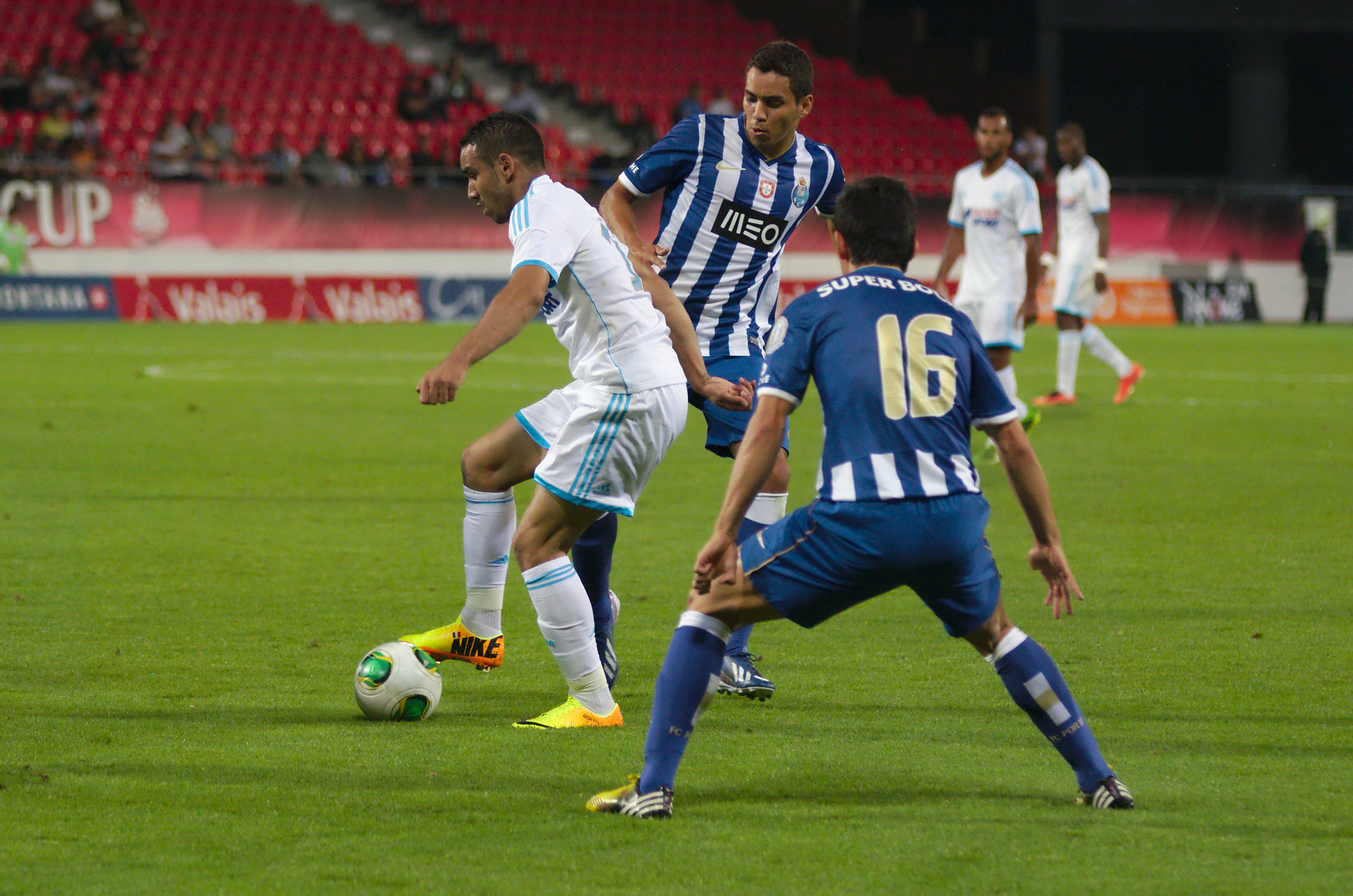 Valais Cup 2013 - OM-FC Porto - 20130713 - Dimitri Payet, Diego Reyes et Castro